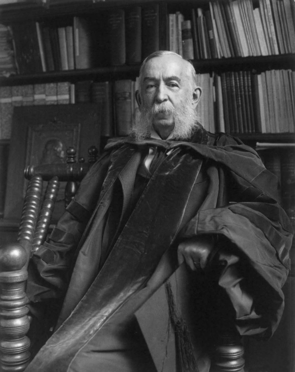 Three-quarter length photographic portrait of Daniel Coit Gilman, native of Norwich, Connecticut, Yale College graduate and professor, and later university president. Co-founder of the Russell Trust Association